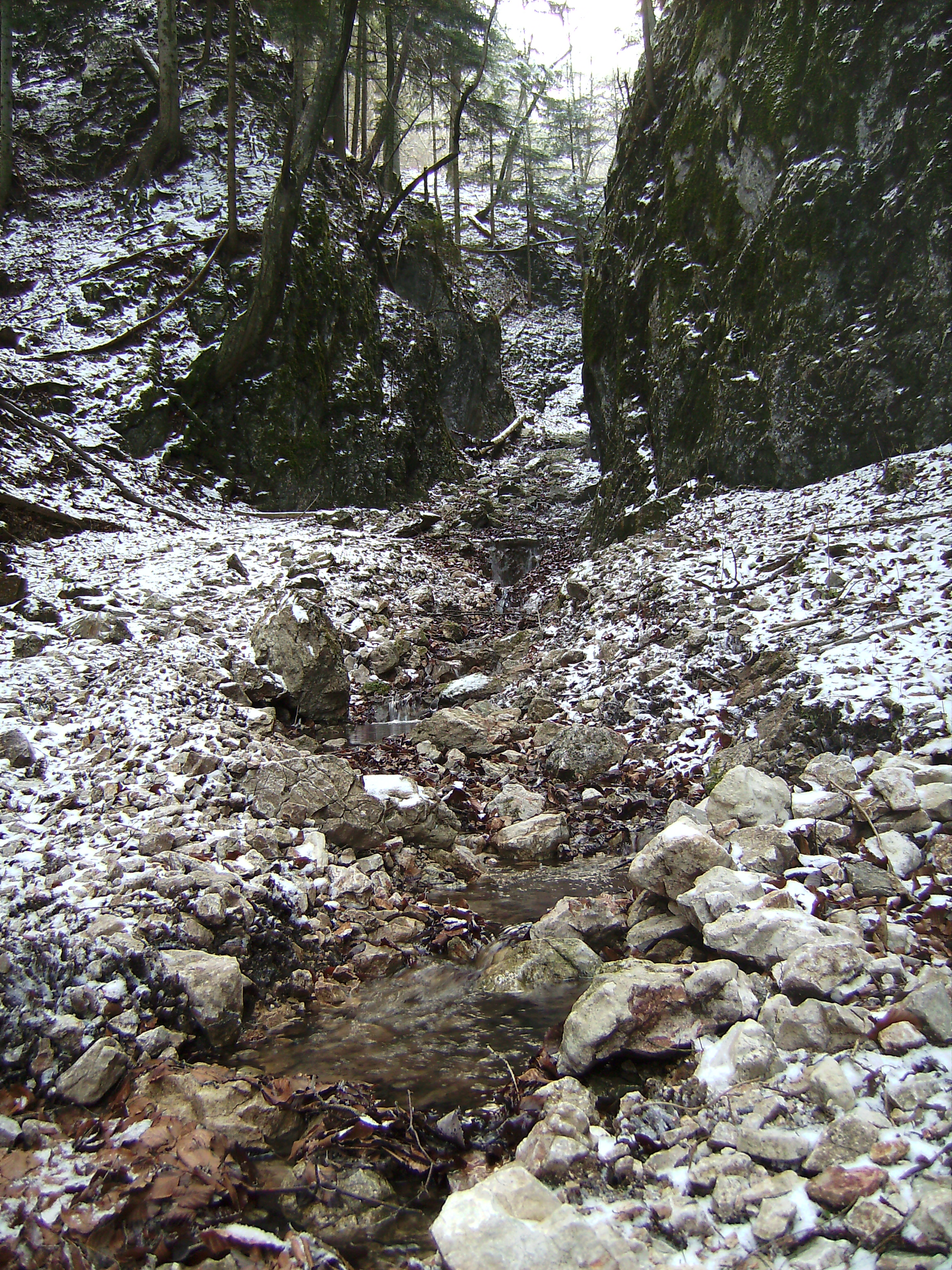 Gadenweither Klamm - Ternitz – December 2008